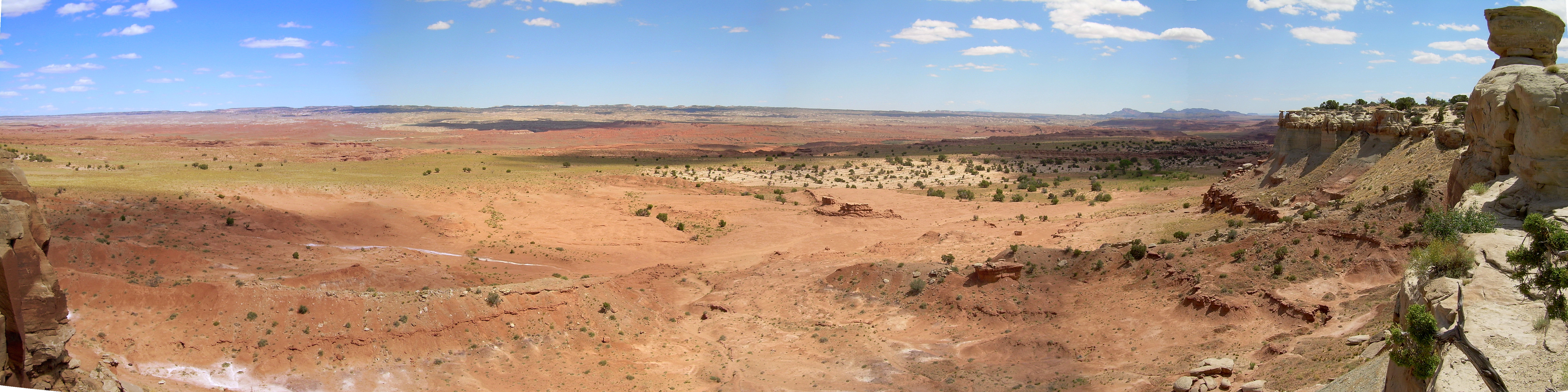 Panorama of roadside overlook on I-70 in Utah